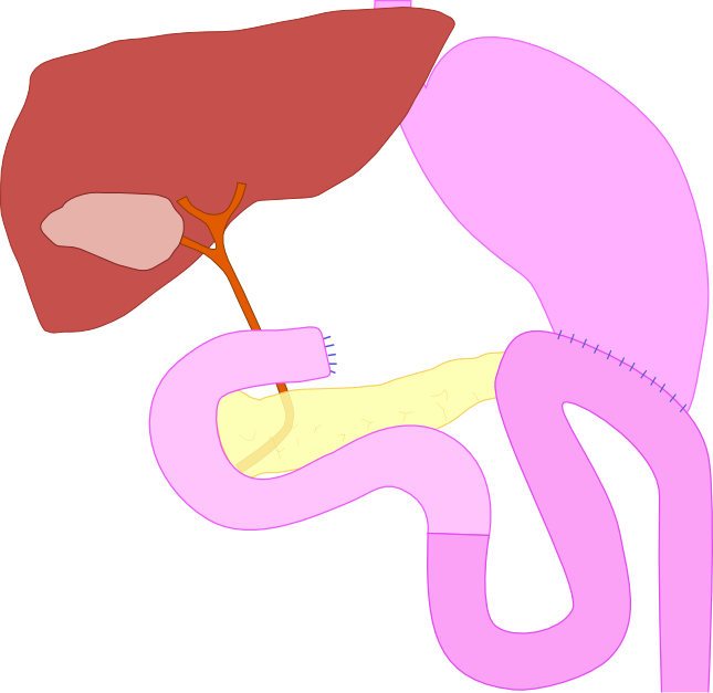 simple diagram of distal gastrectomy with Billroth 2